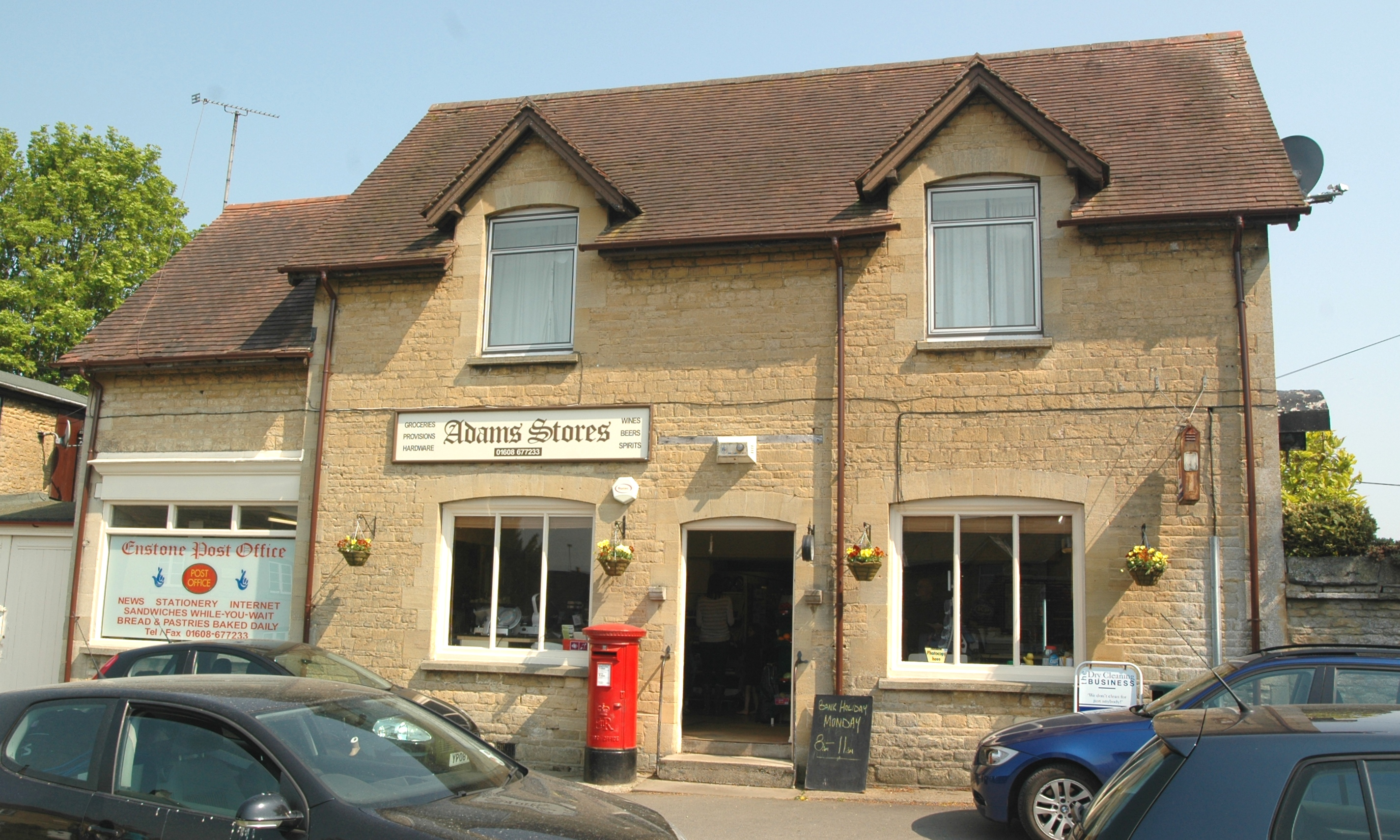 Post office at Neat Enstone, Oxfordshire